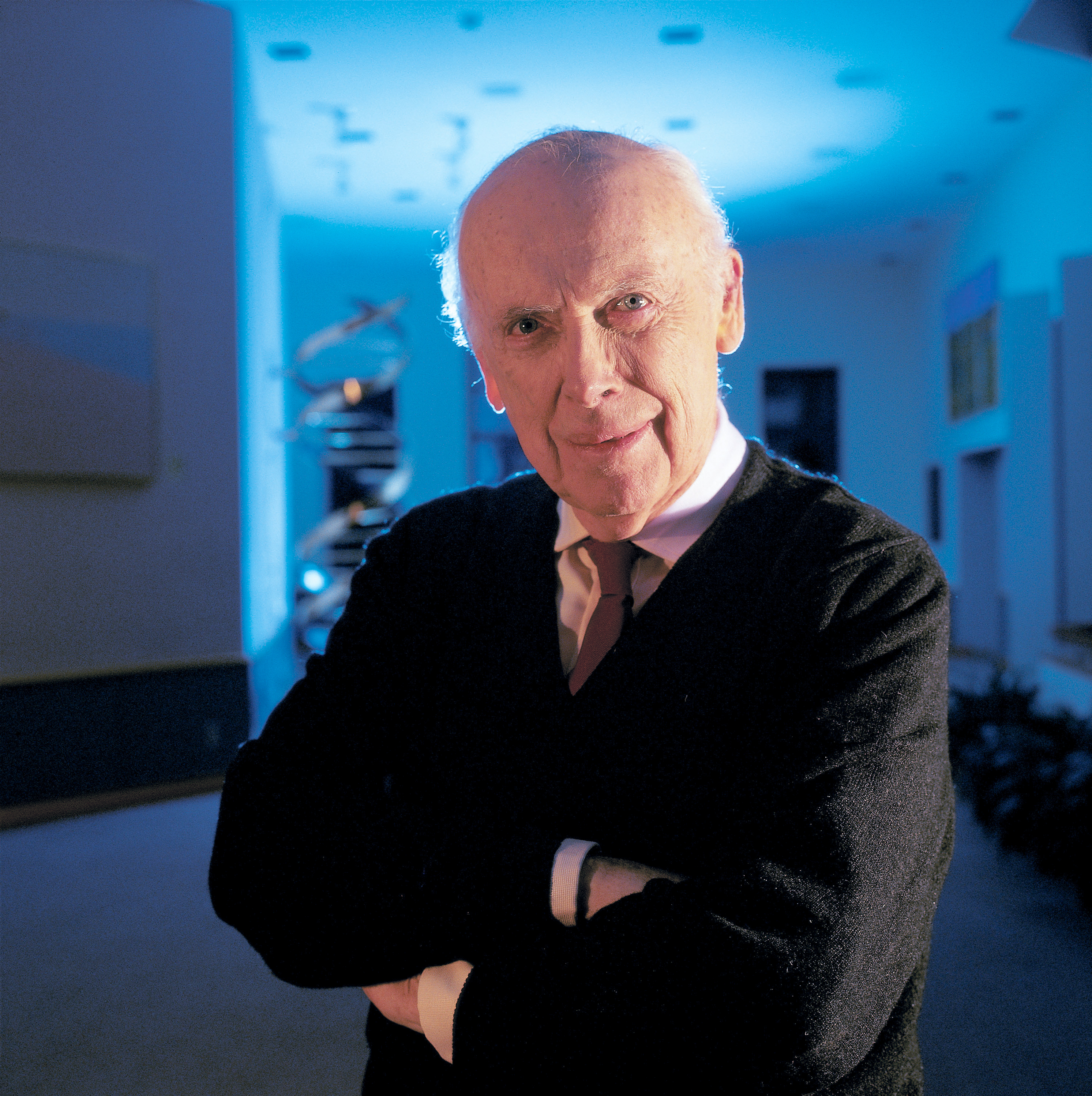 Nobel laureate Dr. James D. Watson, Chancellor, Cold Spring Harbor Laboratory. These images are freely available and may be used without special permission.